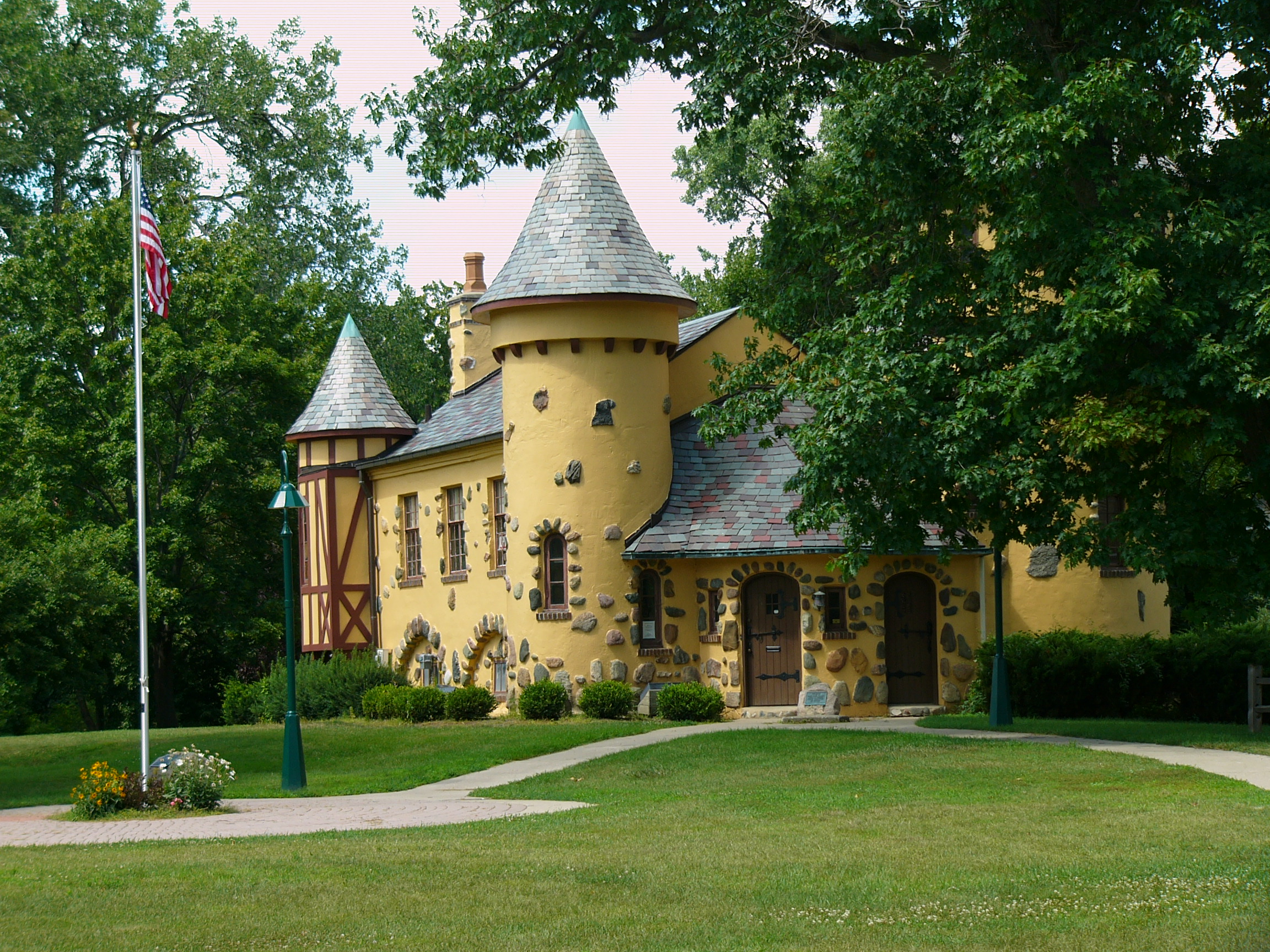 foto castillo Curwood